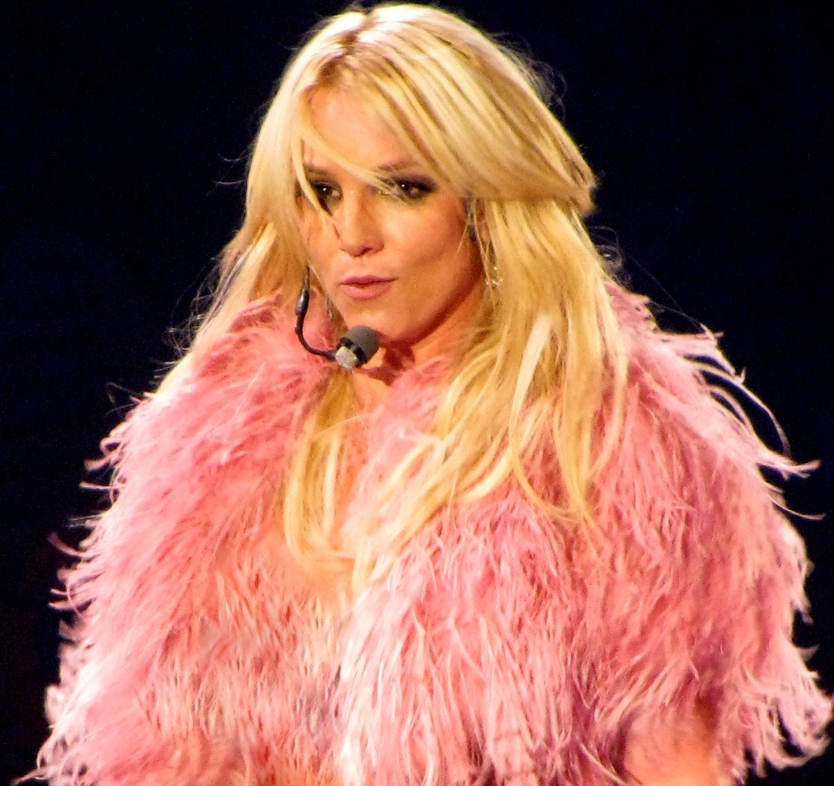 Spears performing If You Seek Amy